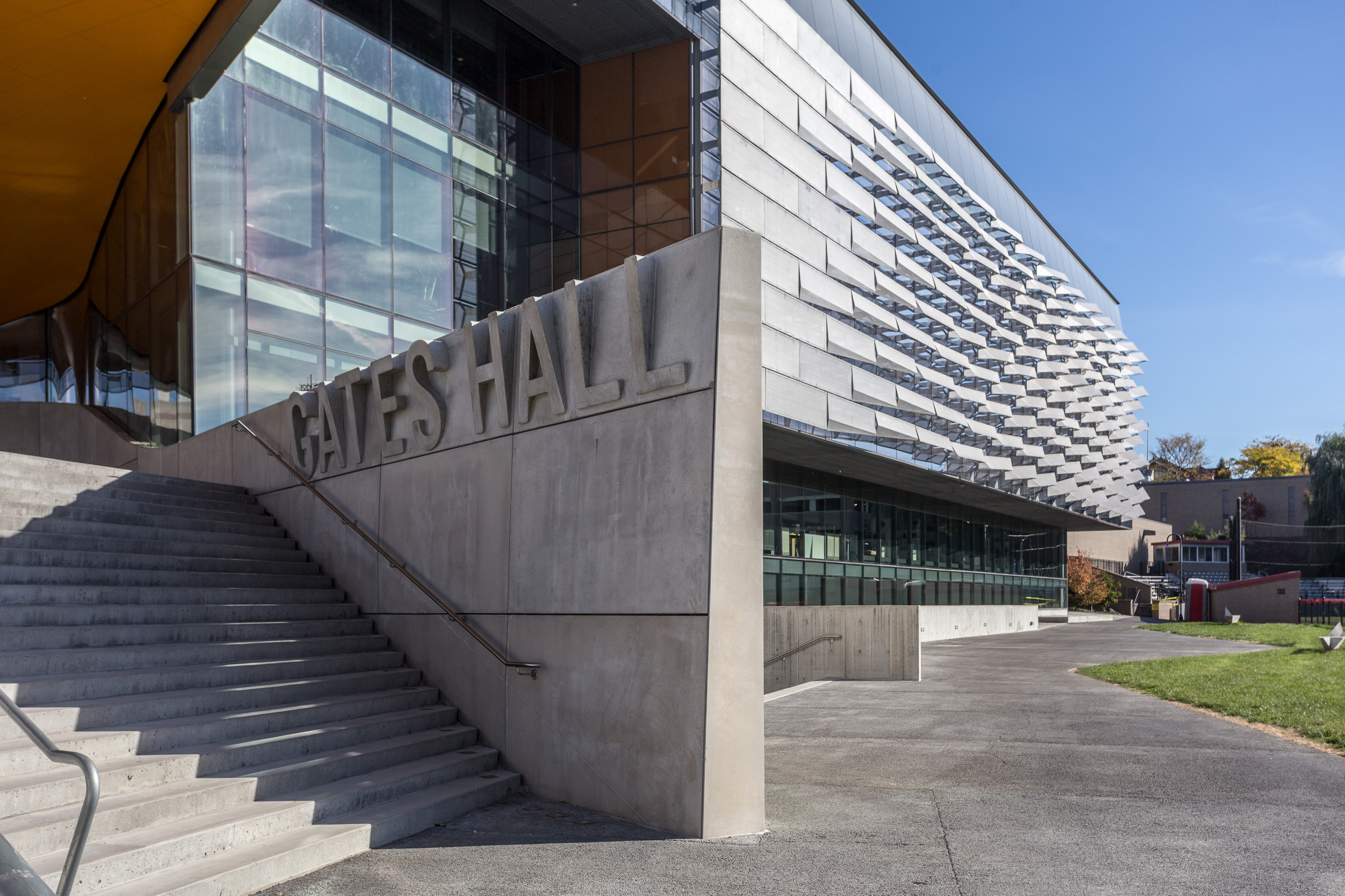 Bill & Melinda Gates Hall at Cornell University